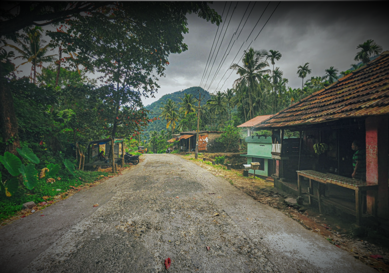 Poovaranthode Market